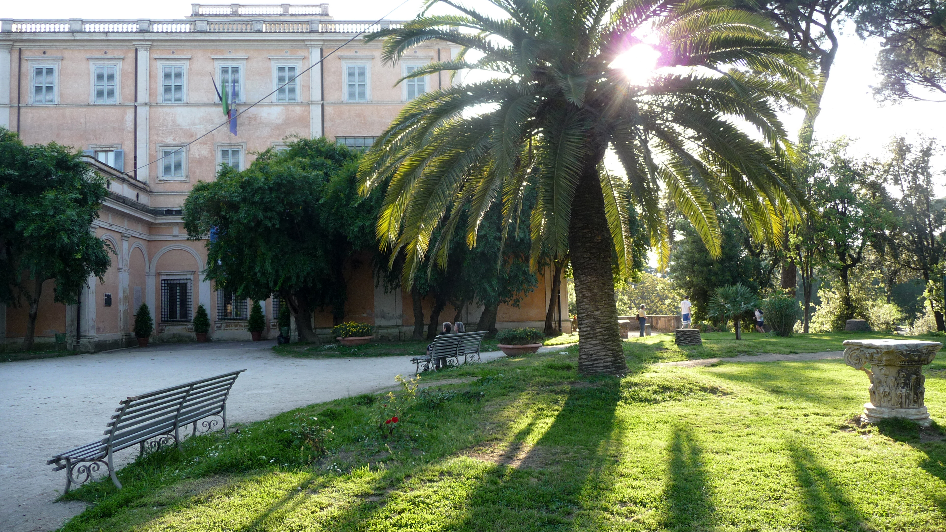 Villa Celimontana in Rome, garden